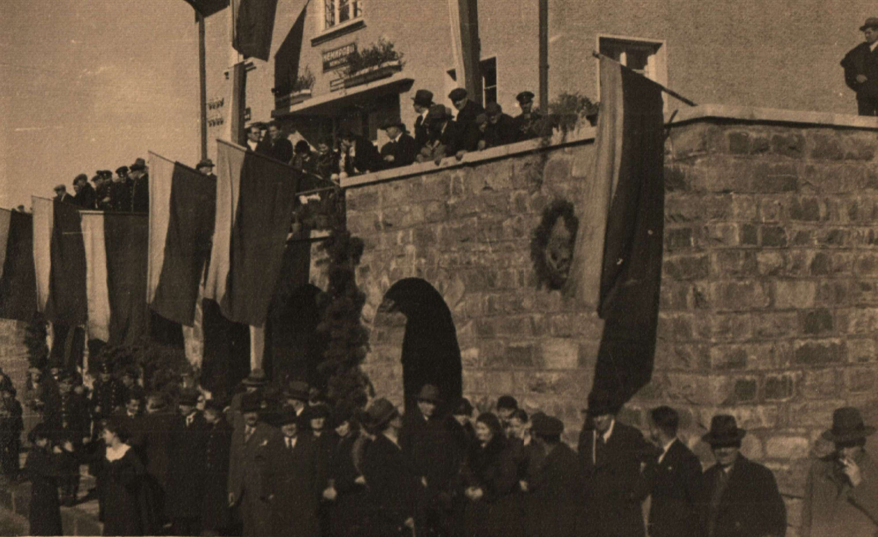 Bulgarian writer Dobri Nemirov (1882-1945)